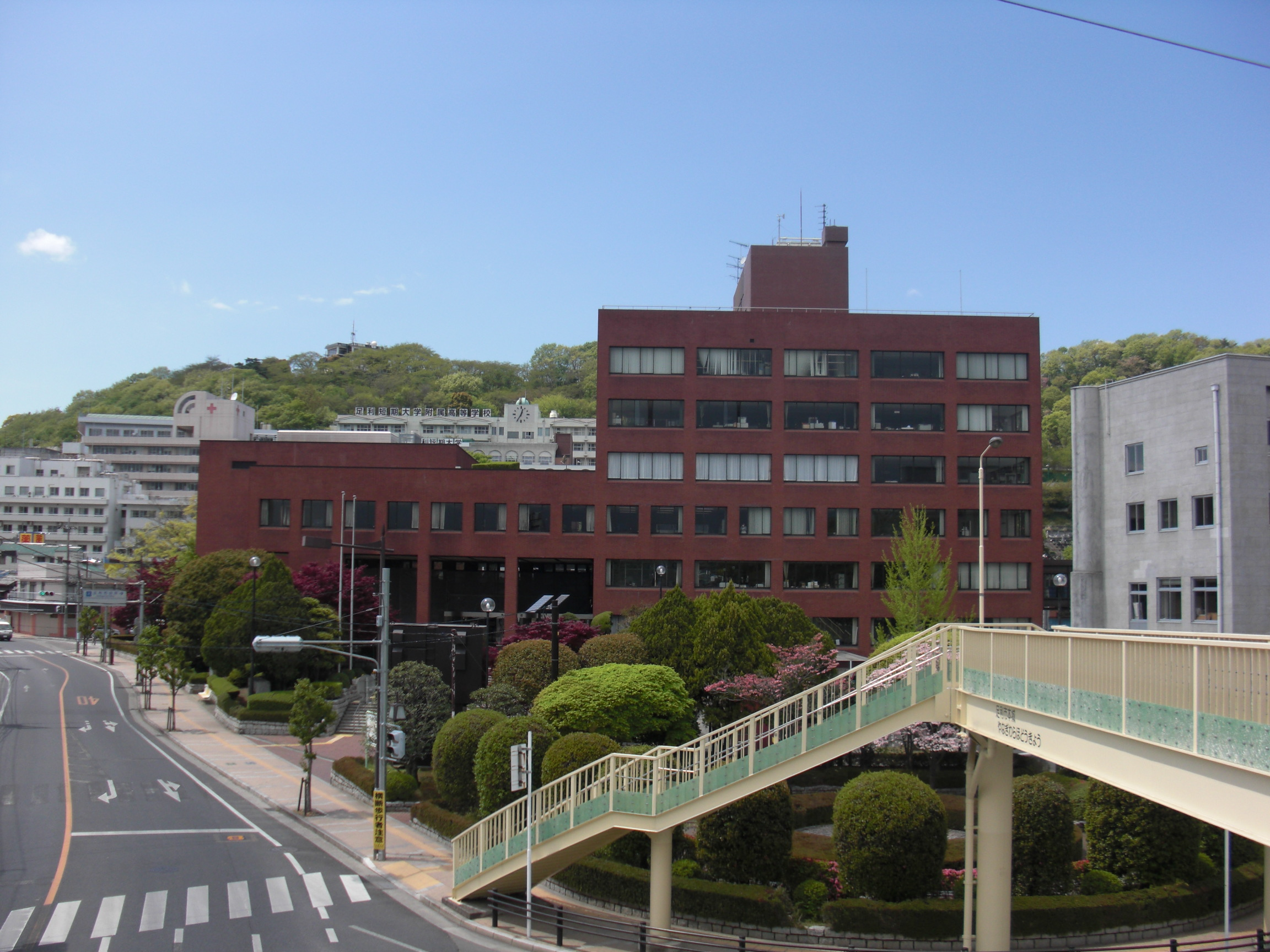 This is the Ashikaga city hall, which is located in Tochigi pref., Japan.